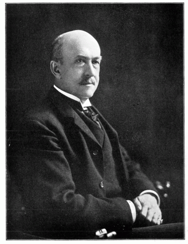 1902 Portrait of William Graham Sumner (1840–1910)